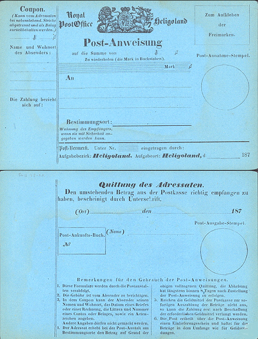 Postcard with prepayed reply (forerunner of International reply coupon, IRC) of Heligoland, 1870 (face and reverse side)